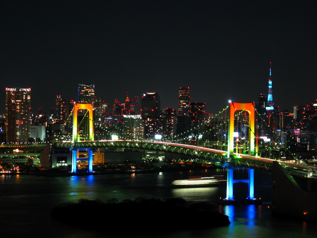 Rainbow colored Rainbow Bridge at night. Tokyo sight from Odaiba island.